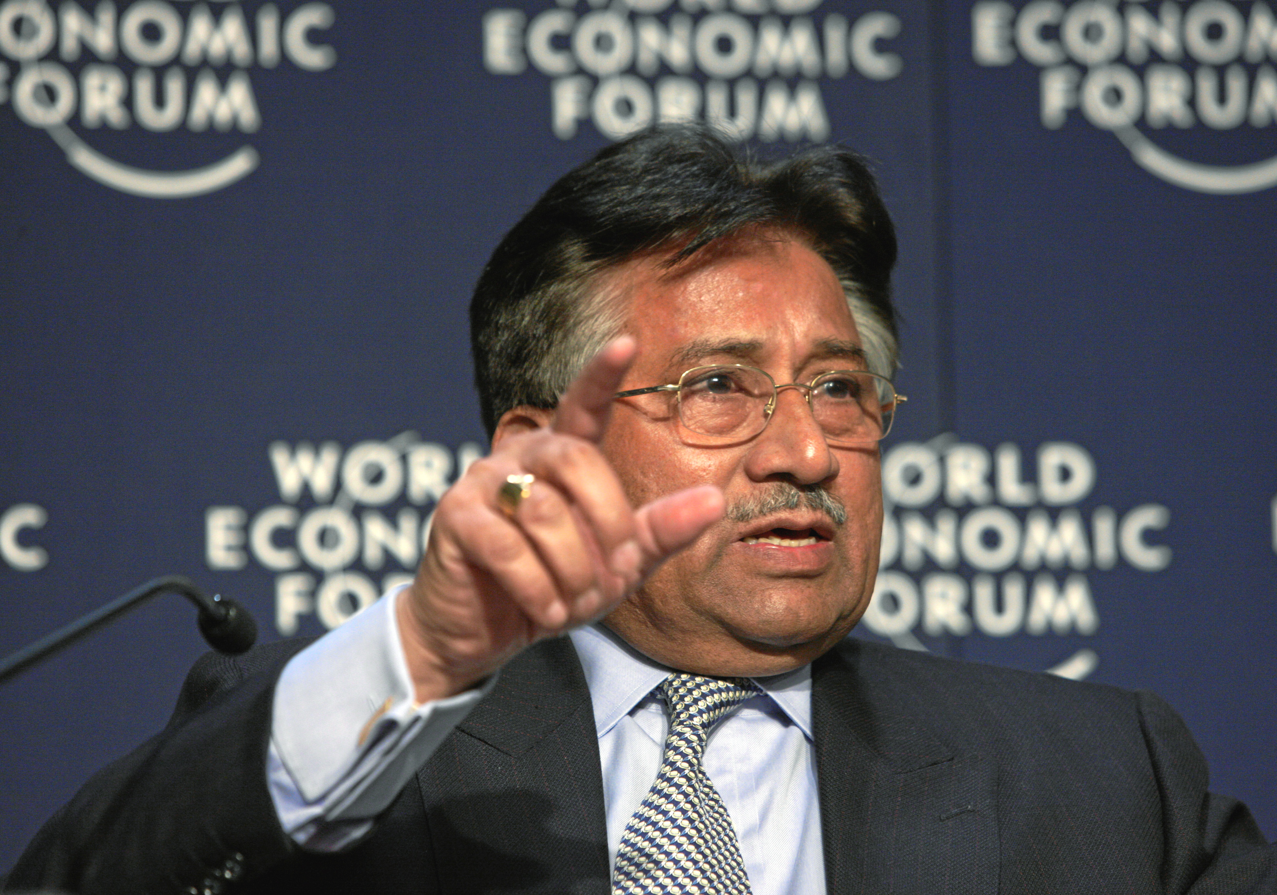 DAVOS/SWITZERLAND, 24JAN08 - Pervez Musharraf, President of Pakistan gestures as he talks during the session 'The Quest for Peace and Stability' at the Annual Meeting 2008 of the World Economic Forum in Davos, Switzerland, January 24, 2008.